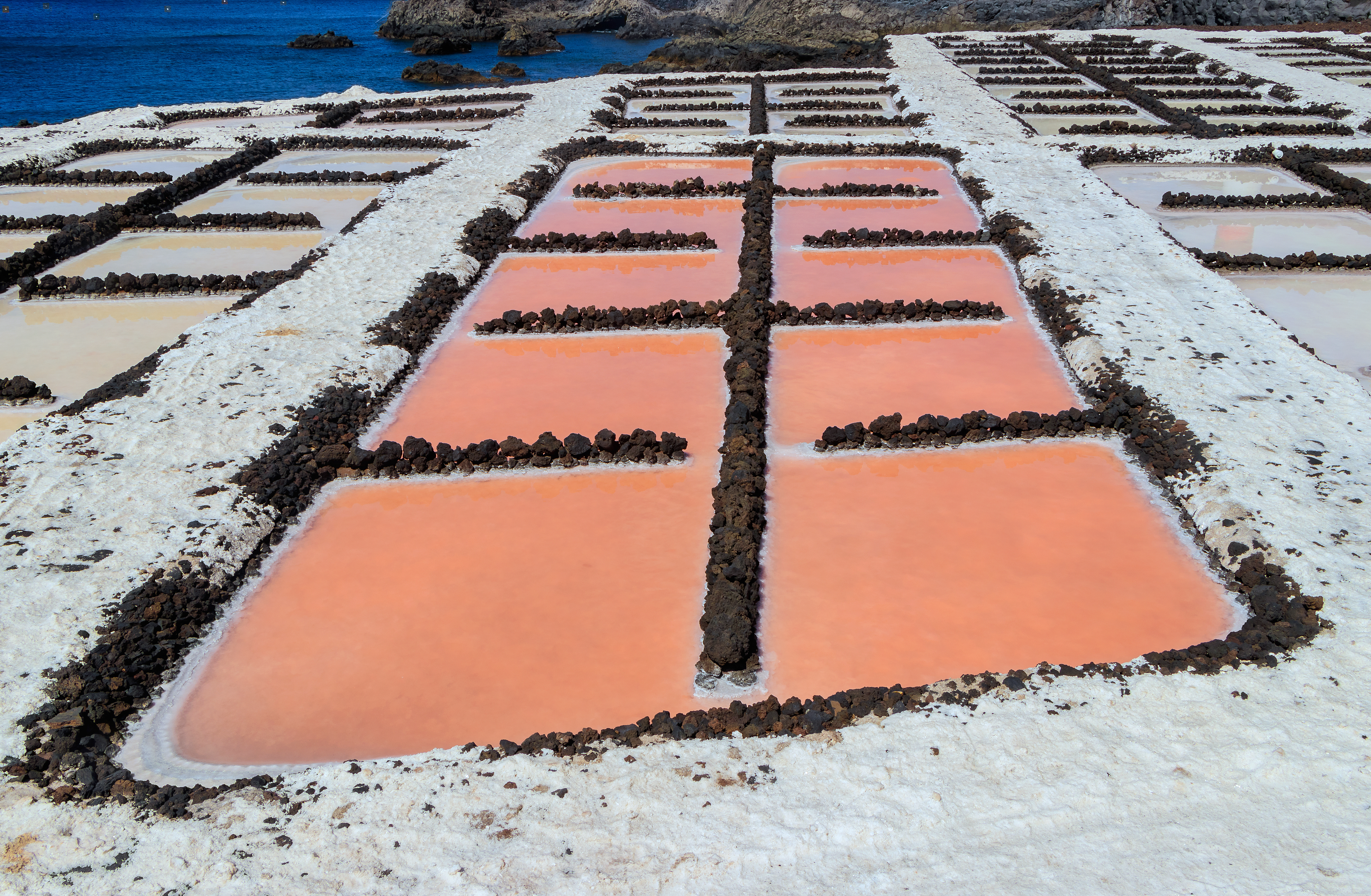 Part of the Salinas de Fuencaliente, Fuencaliente, La Palma, Canary Islands, Spain. The orange colour is caused by the alga Dunaliella salina (Dunal) Teodoresco.